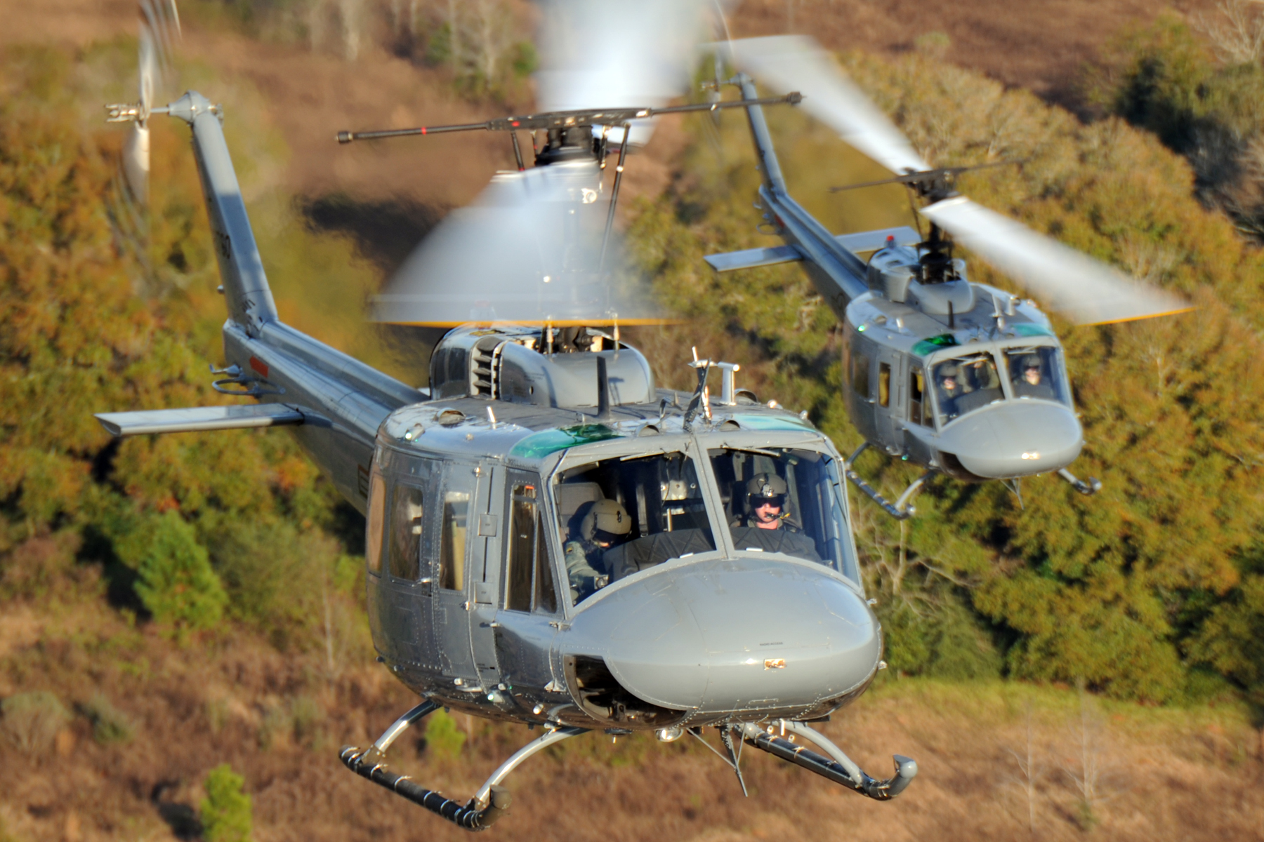 Students from the 23rd Flying Training Squadron at Fort Rucker, Ala., piloting UH-1H Iroquois helicopters, practice formation-flight patterns. The 23rd FTS is the third and final phase of undergraduate pilot training before the student pilots can obtain their wings. It is the Air Force's primary source of helicopter pilot training for special operations, combat search and rescue, missile support and distinguished visitor airlift missions. (U.S. Air Force photo/Airman 1st Class Anthony Jennings)